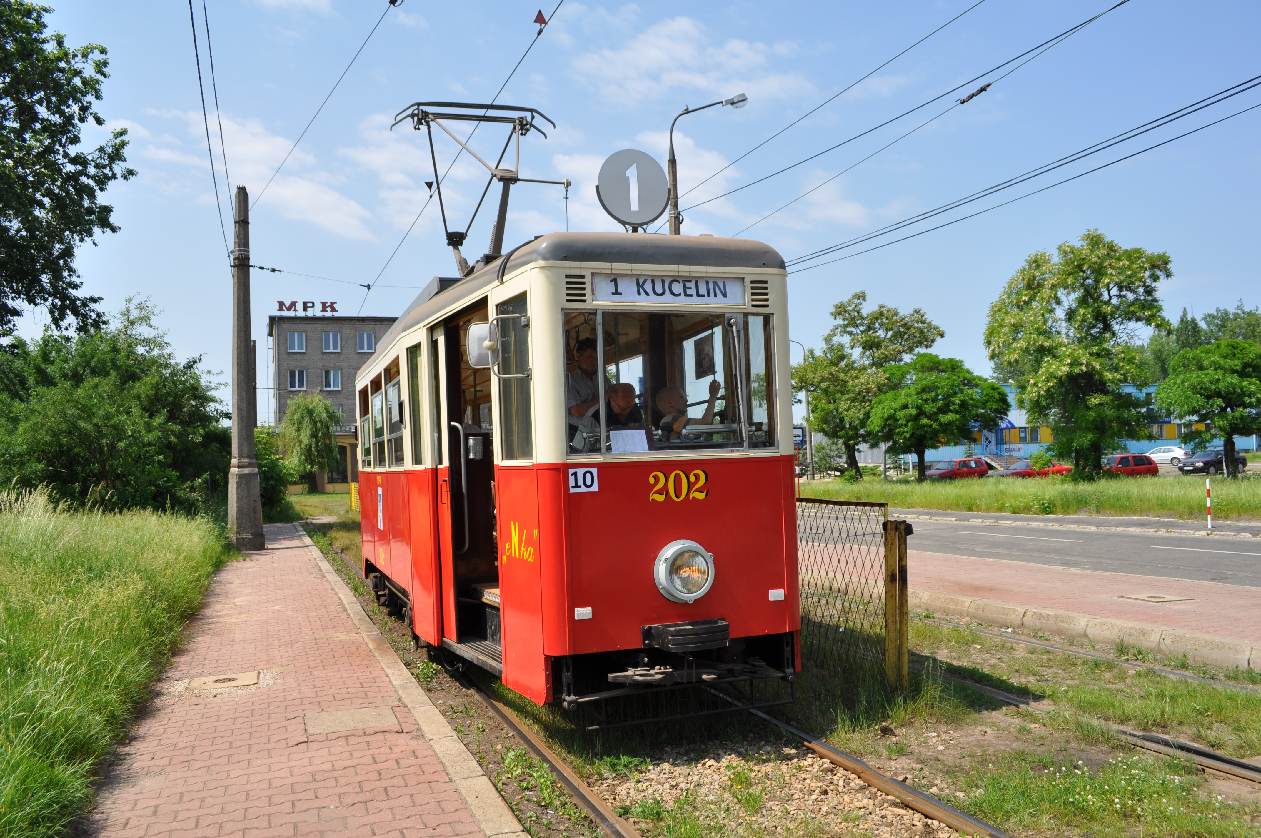 Konstal 4N (#202) in depot in Częstochowa, Poland.